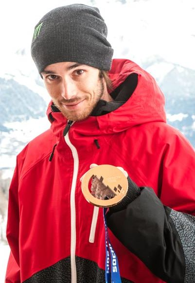 Bronze medal in Ski Halfpipe, men for Kevin ROLLAND at Sochi 2014 shot by Louis Garnier in La Plagne.